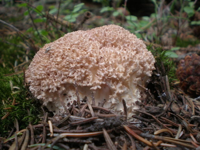 The coral fungus Ramaria botrytis (Pers.) Ricken. Photographed in Gallatin Co., Montana, USA.